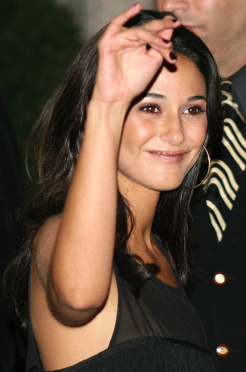 Emmanuelle Chriqui at the 2008 Toronto International Film Festival